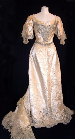 Worth Court Presentation Dress; St Edmundsbury Borough Council Moyse's Hall Museum Bury St Edmunds